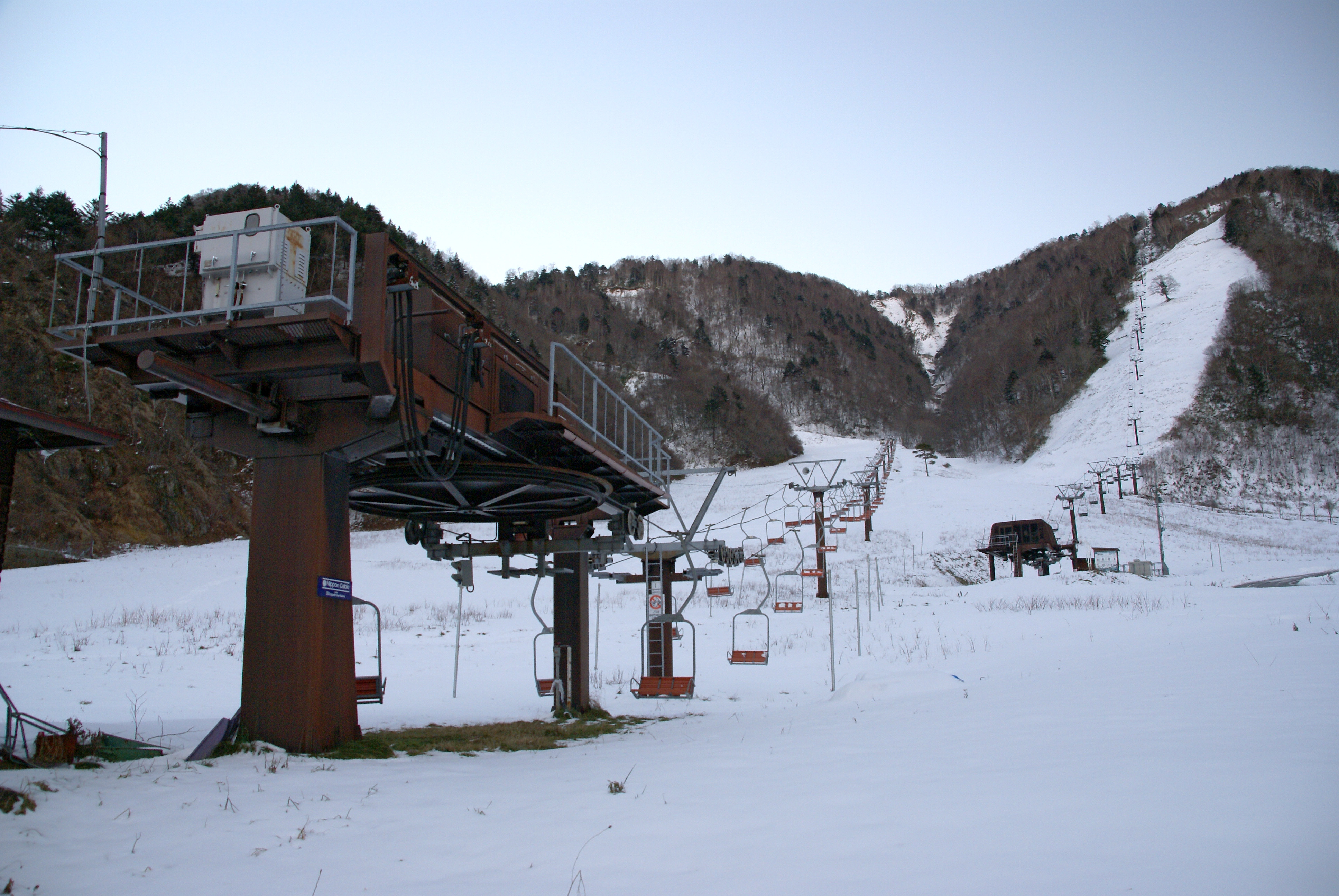 Hirayu Onsen Ski Park in Takayama, Gifu prefecture, Japan